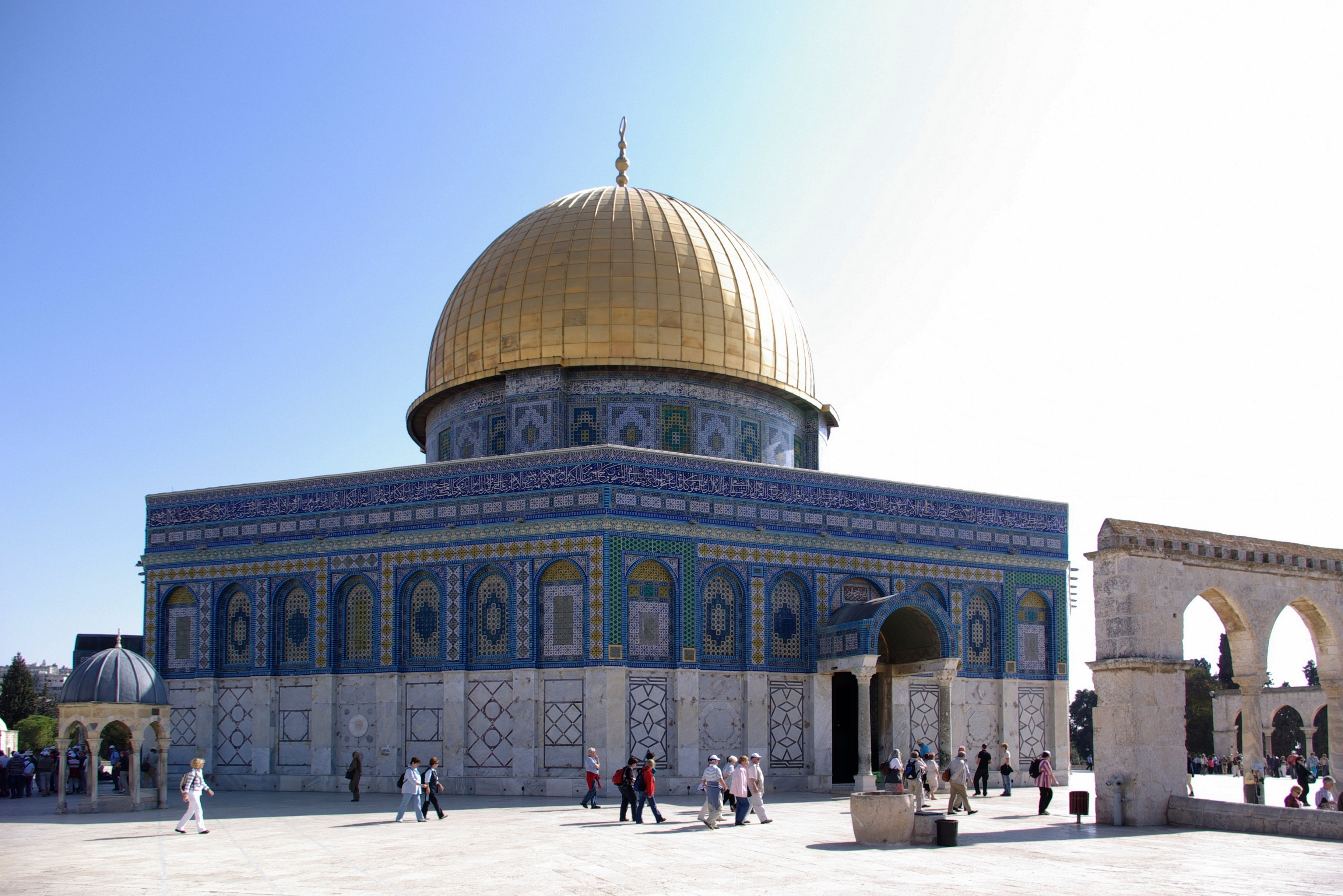 Jerusalem, Dome of the Rock